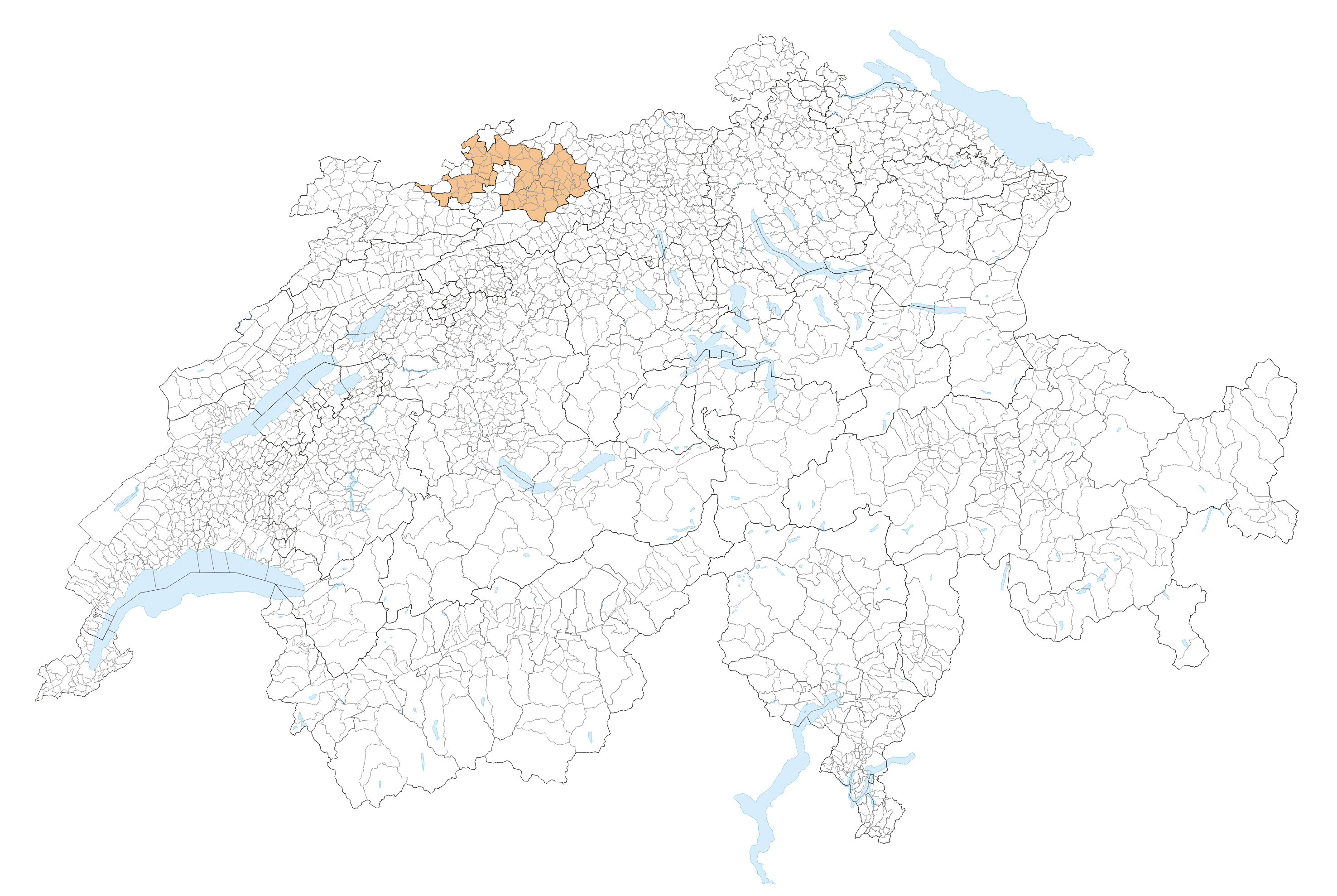 Kanton Basel Landschaft